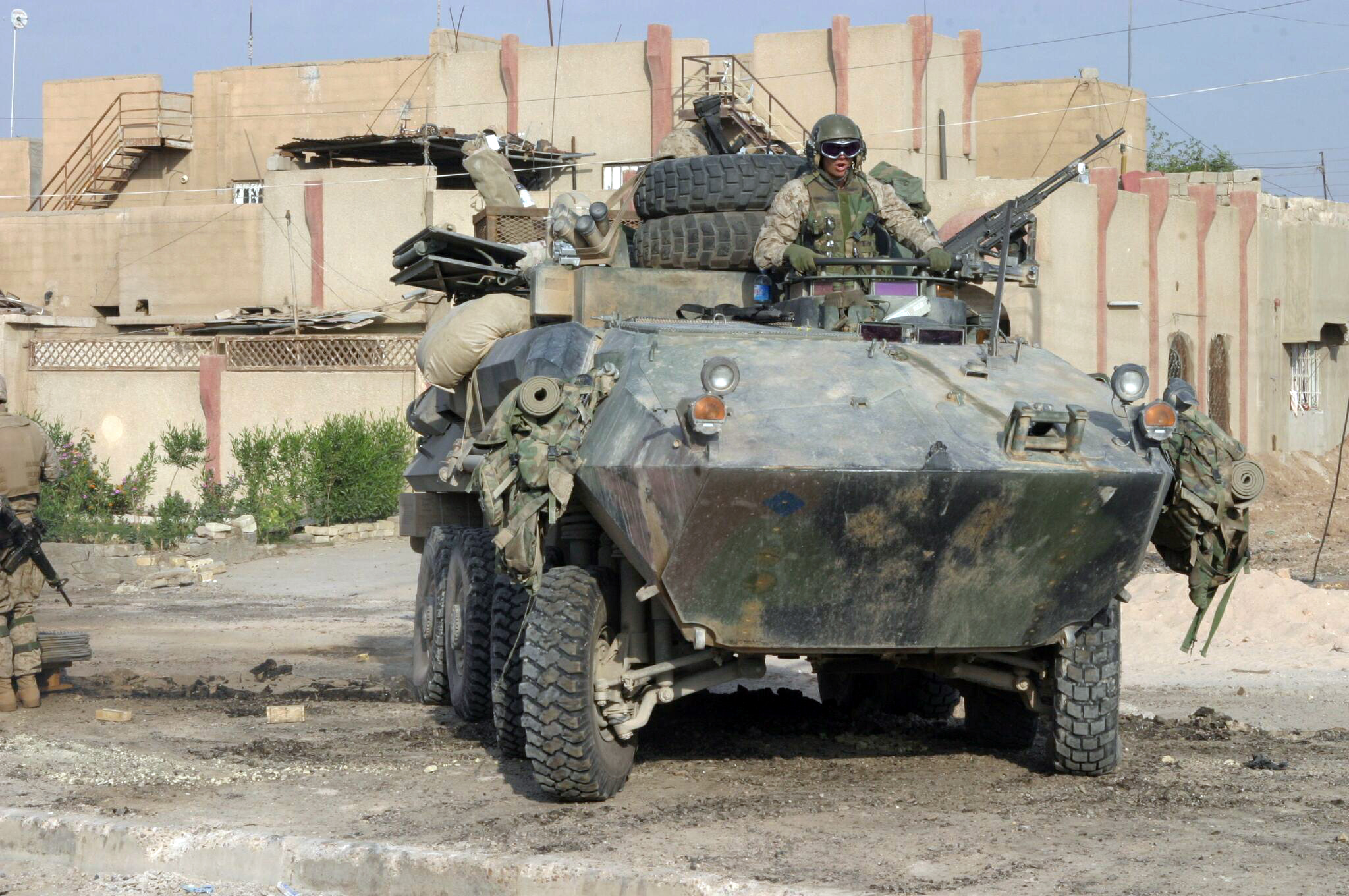 Fallujah, Iraq (Nov. 16, 2004) - U.S. Marines, assigned to Regimental-sized Combined Arms Team Seven (RCT-7) 1/3 Charlie Company, drive an Assault Amphibian Vehicle (AVV) in the city of Fallujah, Iraq. The Marines assigned to RCT-7 1/3 Charlie Company is providing security and support to the civilians in the city during Operation Al Fajr (New Dawn). U.S. Marine Corps photo by Lance Cpl. Daniel J. Klein (RELEASED)